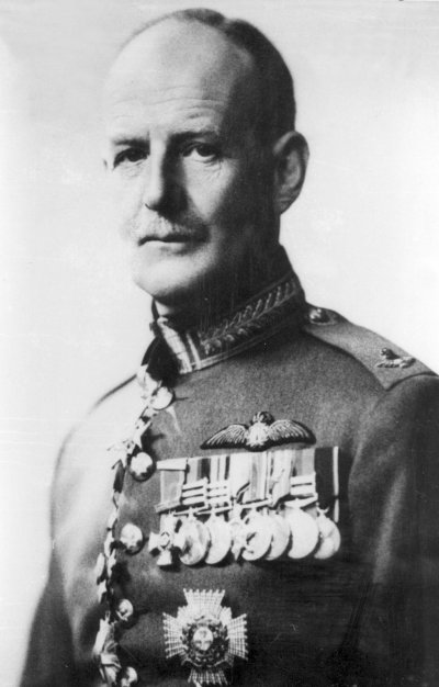 Digitized photograph of Air Chief Marshal Sir Charles Burnett.